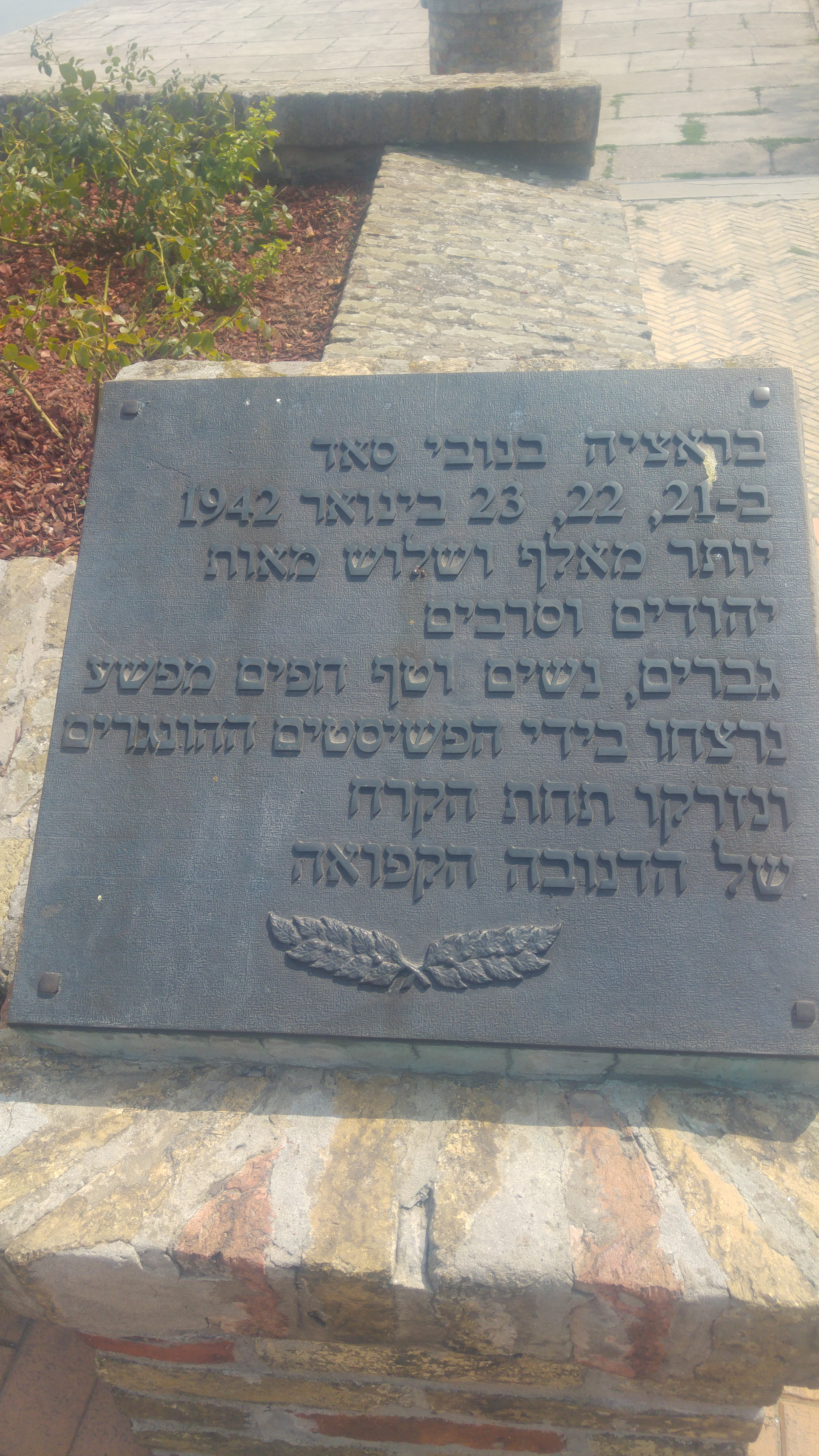 novi sad holocust monument